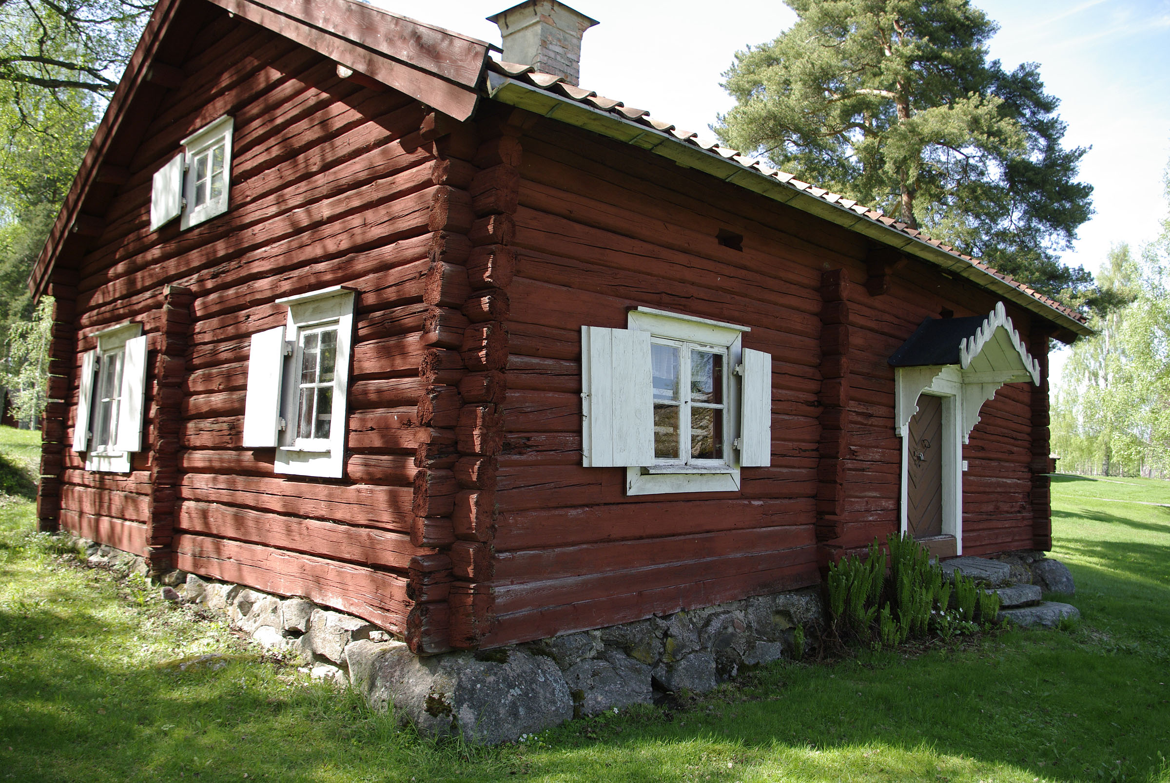 Old house from Regional history museum of Gällersta in Sweden.